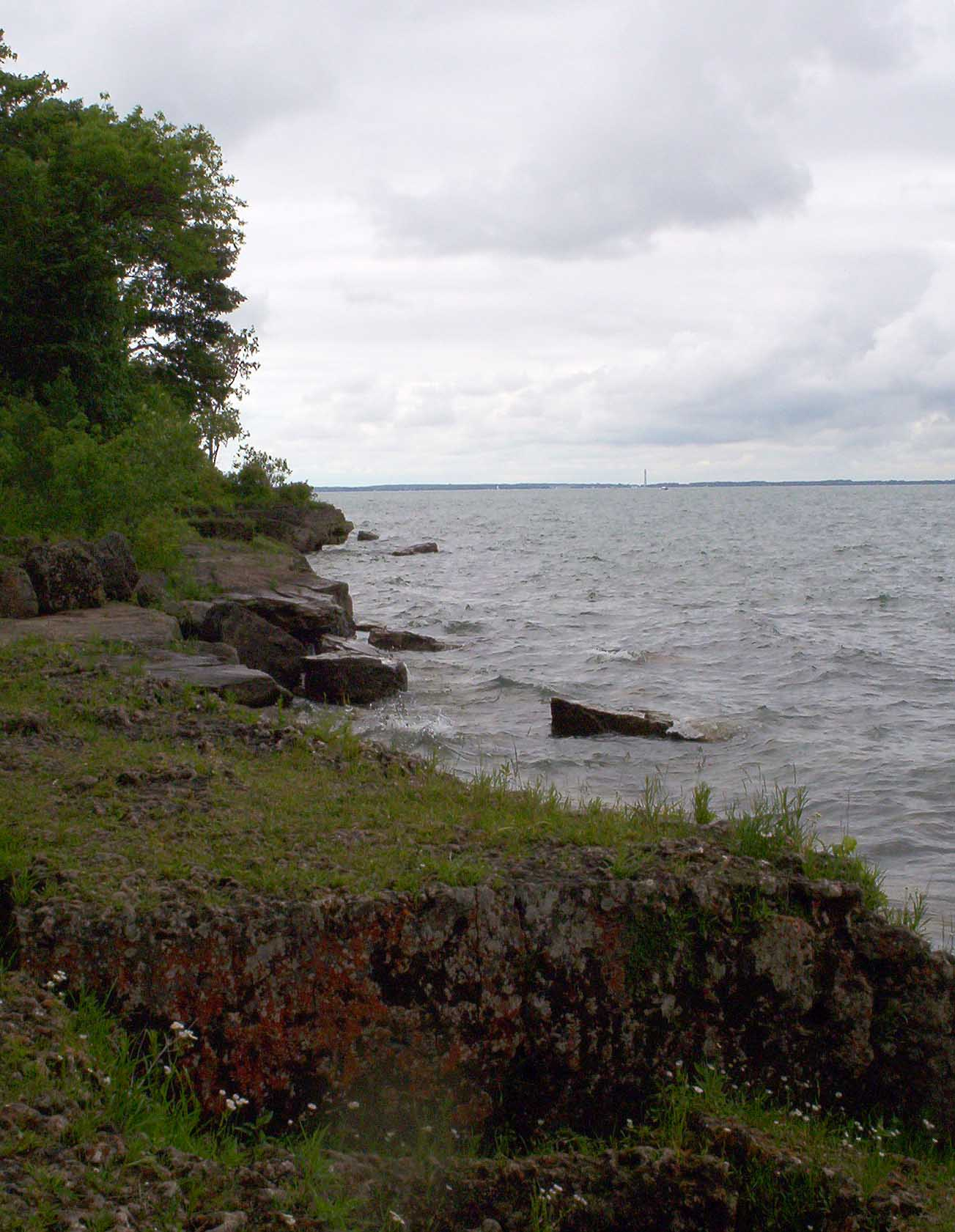 Alvar on Kelley's Island, Ohio in Lake Erie